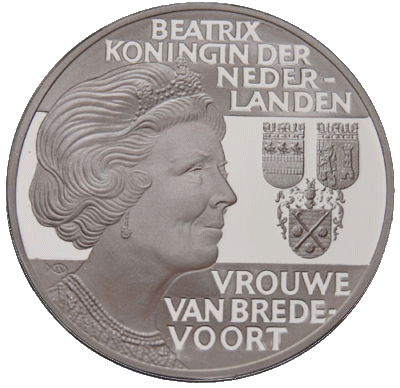 Coin_bredevoort_lichtenvoorde_borculo animated gif